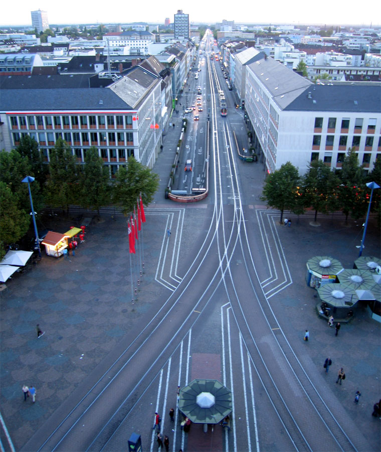 view over the Rheinstreet in Darmstadt